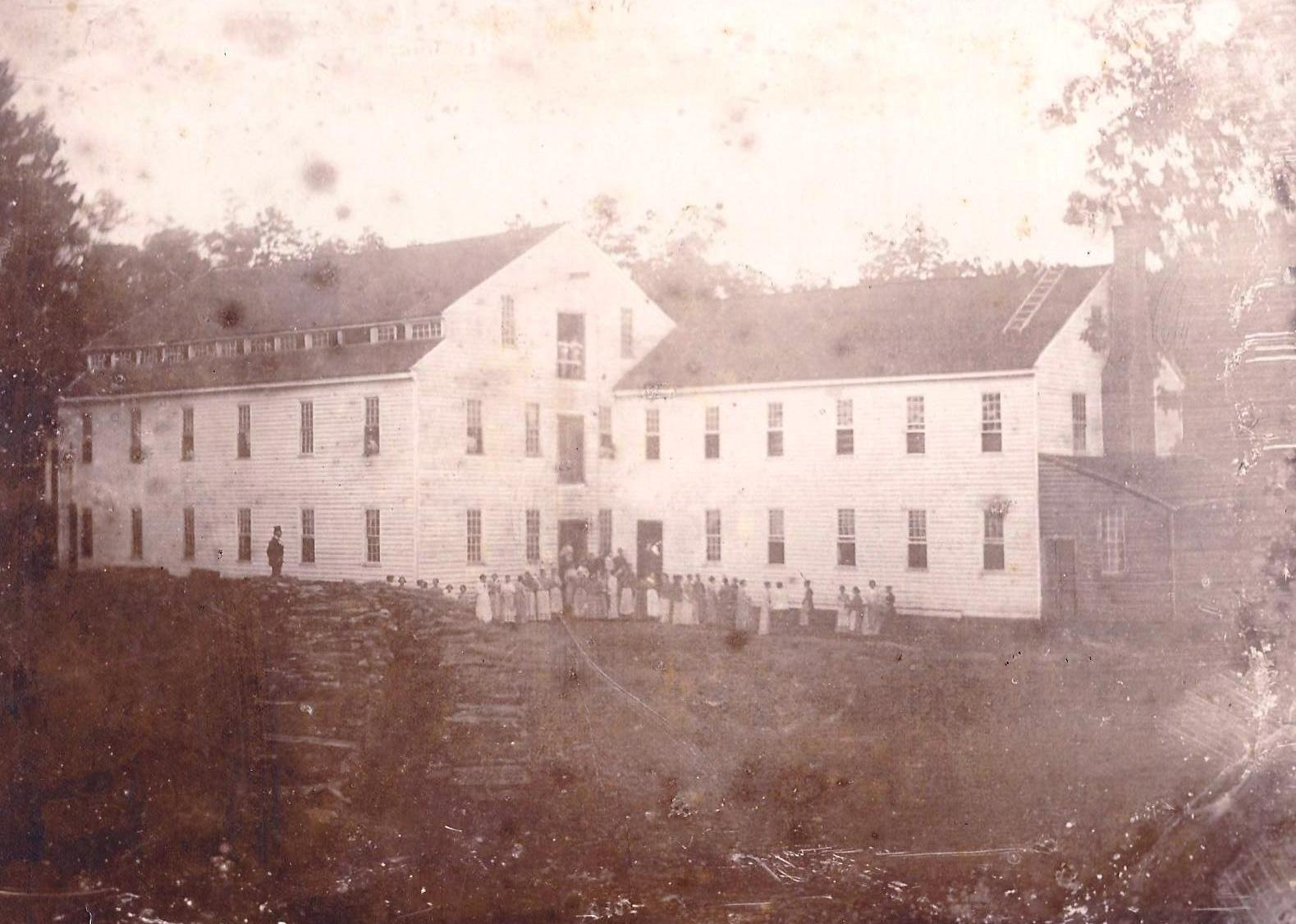 Photograph of the Alamance Cotton Mill, built by Edwin M. Holt, taken in 1837 shortly after construction was finished. Holt was a pioneer of the Southern textile industry, in which his family was intimately involved for decades.